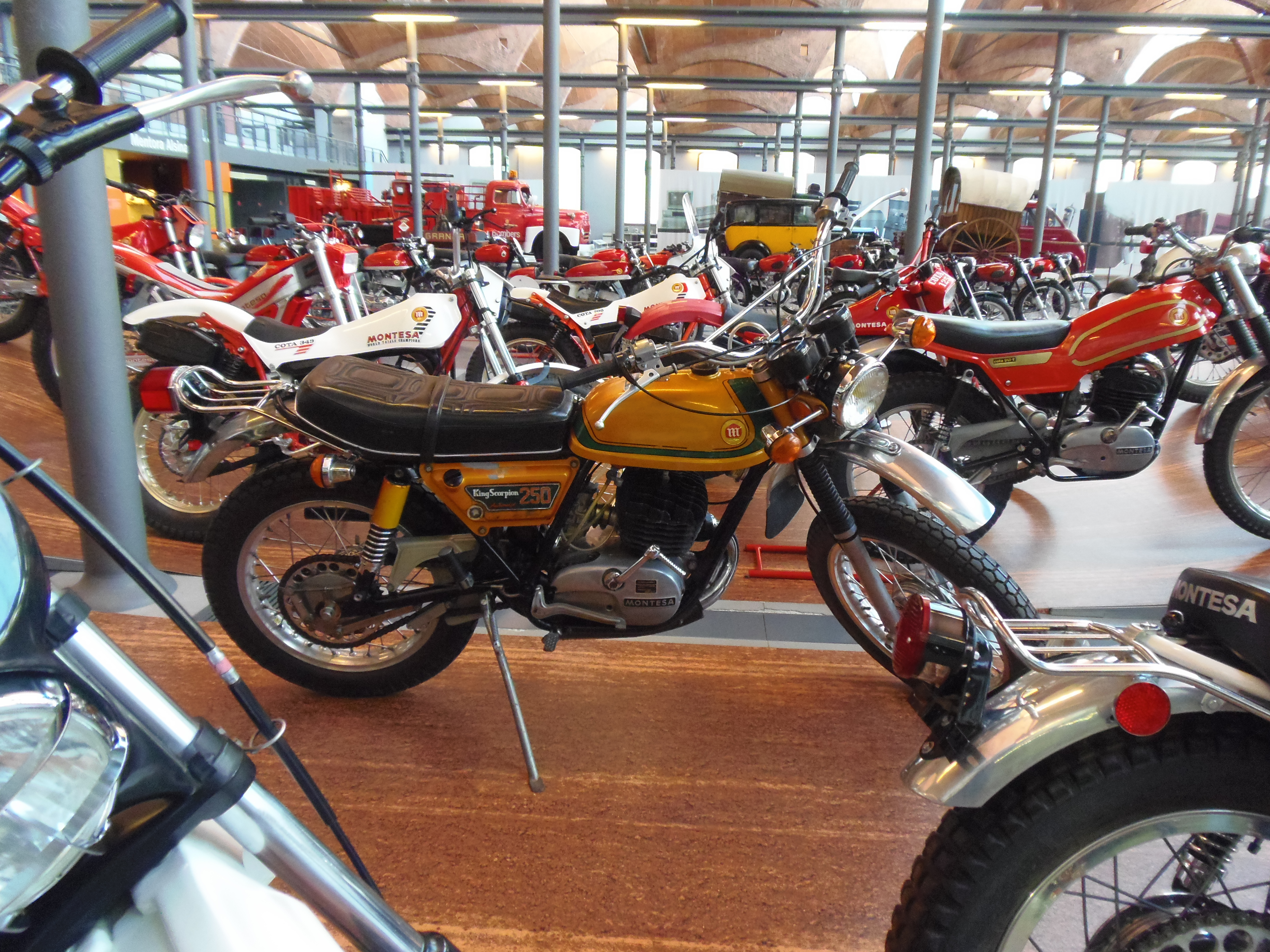 Montesa King Scorpion 250, 1972